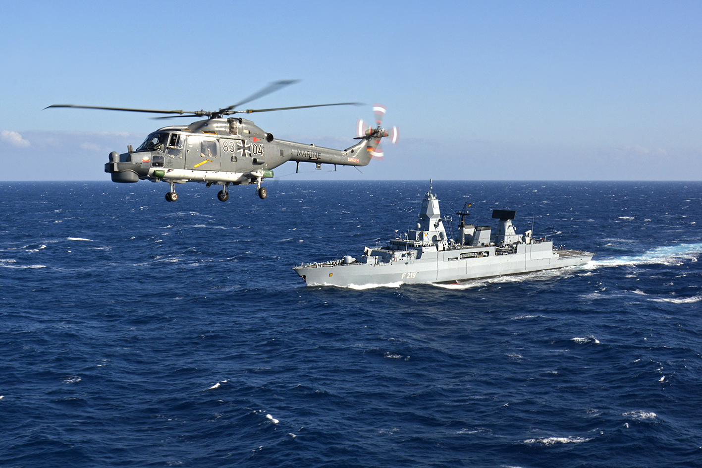 20151023_DEU_AB_26 MEDITERRANEAN SEA -- During NATO-Exercise TRIDENT JUNCTURE 2015, both German shipborne helicopters type Sea Lynx of SNMG2 flagship German frigate HAMBURG are simultaneously airborne and exercising dual formation flights. While participating in TJ15, SNMG2 is currently sailing with three further ships in a combined task group. Depicted are German frigate SACHSEN and one of the helicopters (October 23, 2015). The units of Standing NATO Maritime Group 2 (SNMG2) are sailing in the Mediterranean Sea, inter alia, participating in multinational exercises and Operation ACTIVE ENDEAVOUR, showing presence of the Alliance and conducting routine port visits in NATO and Non-NATO countries. Credit: German Navy photo by Photographer PO1/OR-6 Alyssa Bier (released)